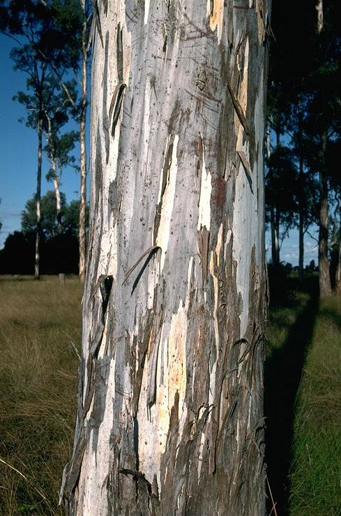 Bark on the trunk of Eucalyptus argophloia near Burncluith, Queensland